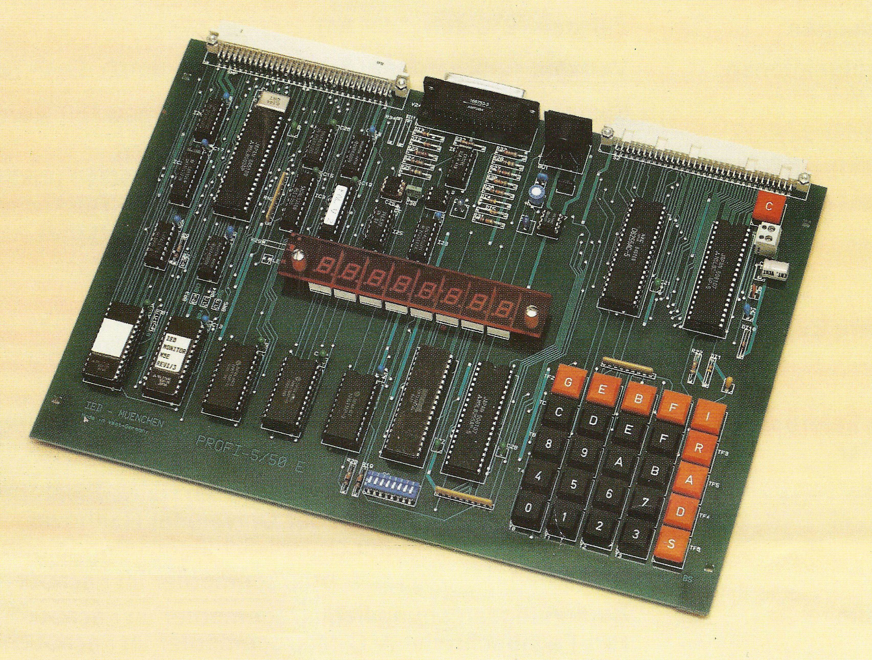 Mikrocomputersystem PROFI-5E in Zarge